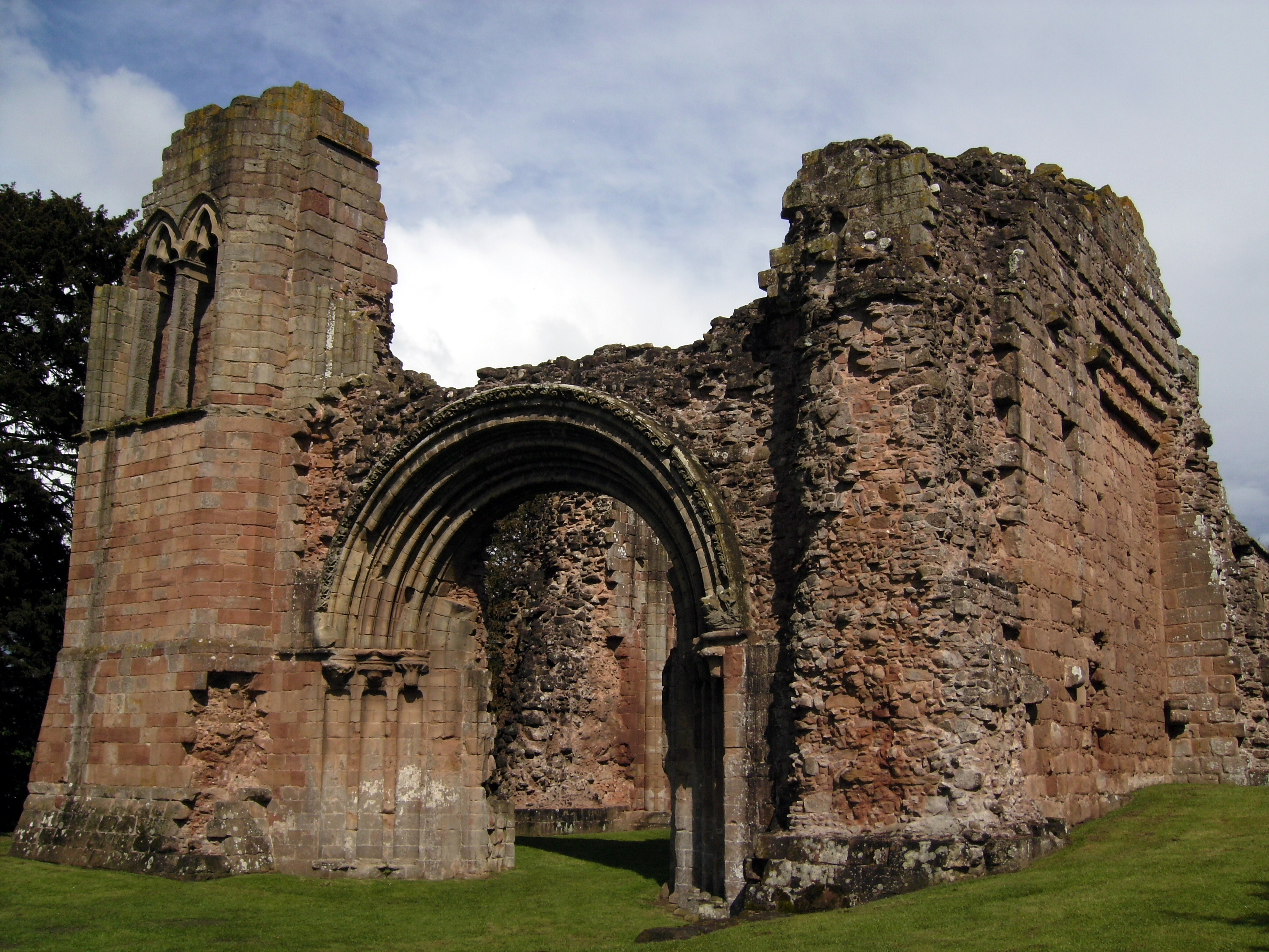 Western end oof remains of the church, showing the main west portal. Lilleshall Abbey, Lilleshall, near Telford, Shropshire.